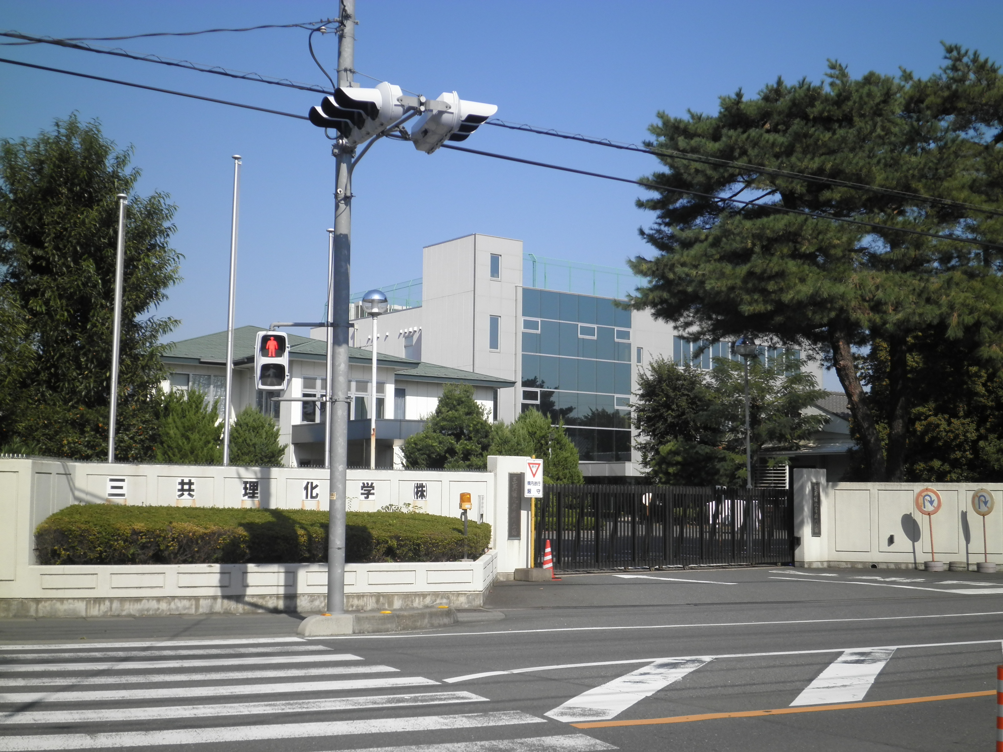 Sankyo Rikagaku Co.,Ltd. Headquarters in Saitama, Japan.